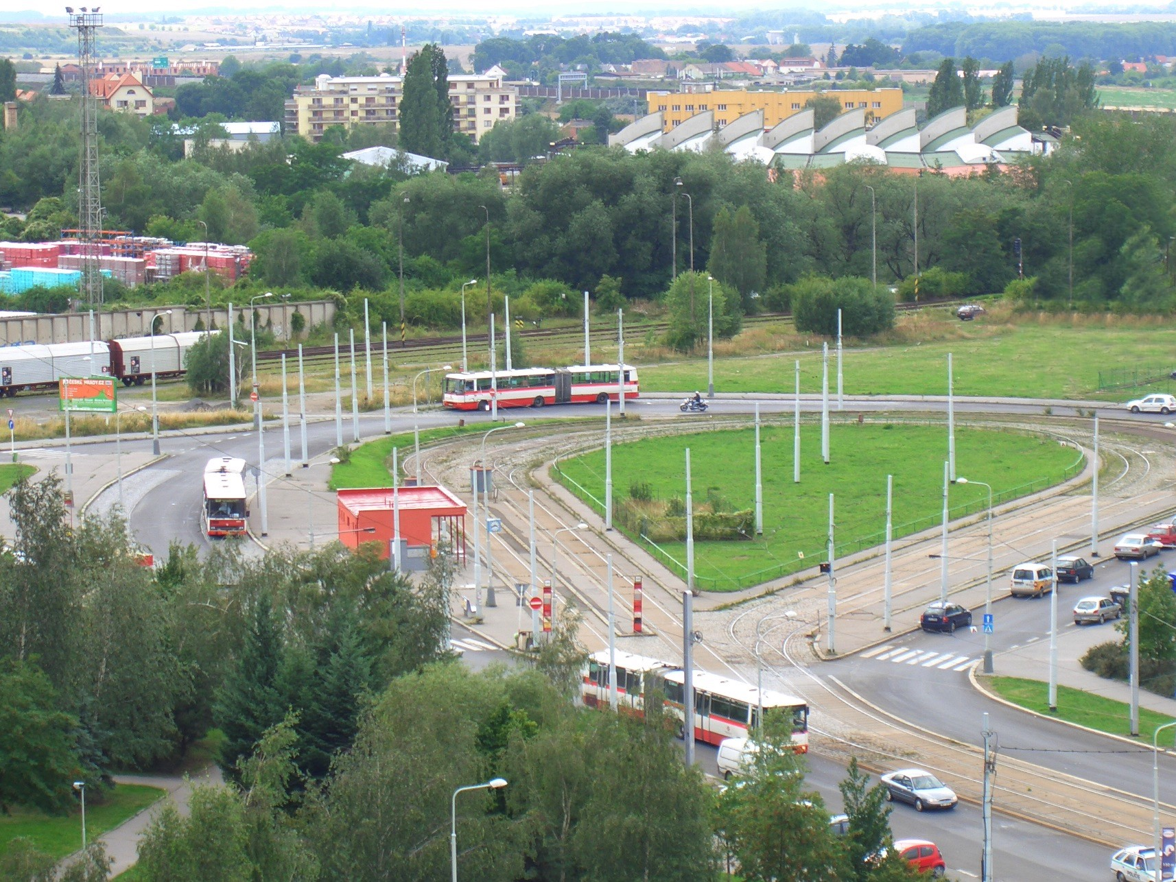 Empty tram terminal station Řepy